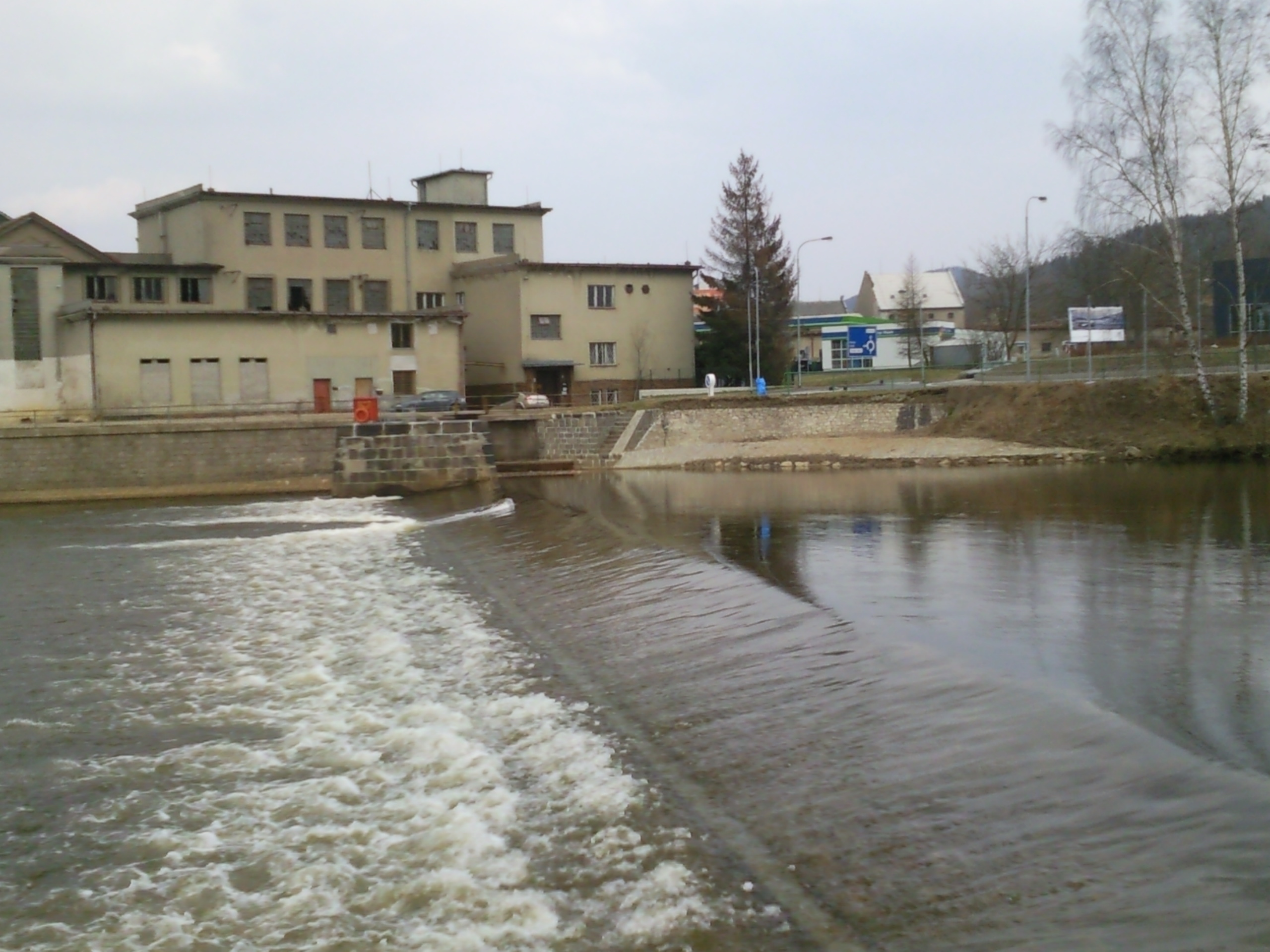 Eat renovated (March 2011)